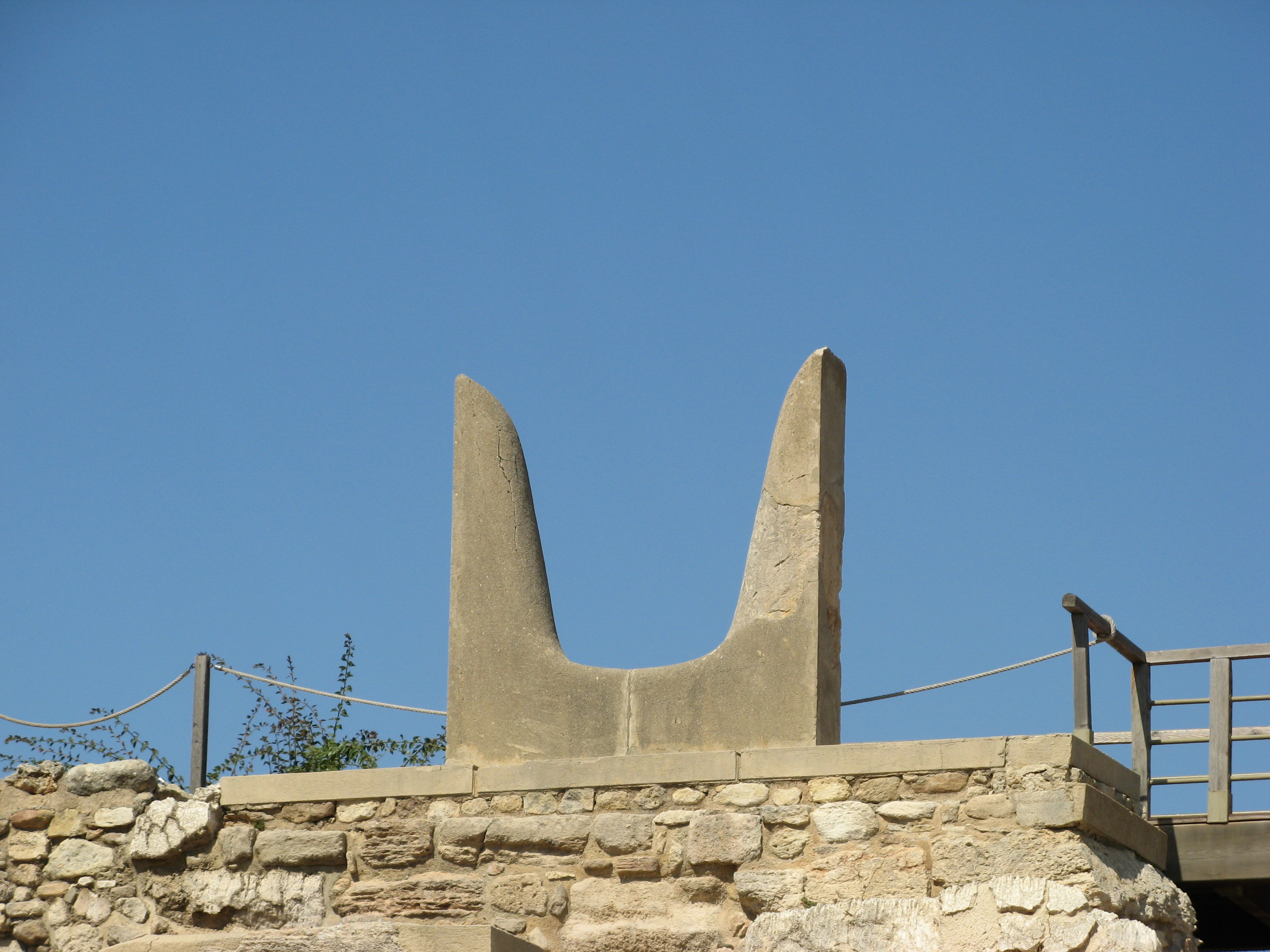 concrete replica of bulls horns statue at Knossos